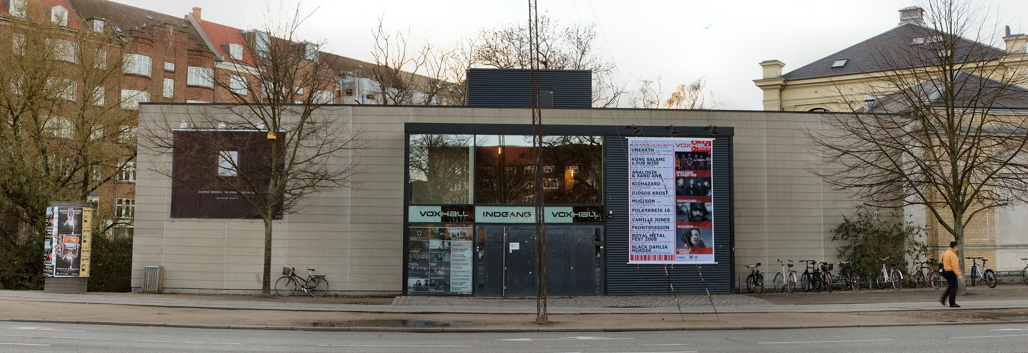 The music venue Voxhall, Århus, Denmark